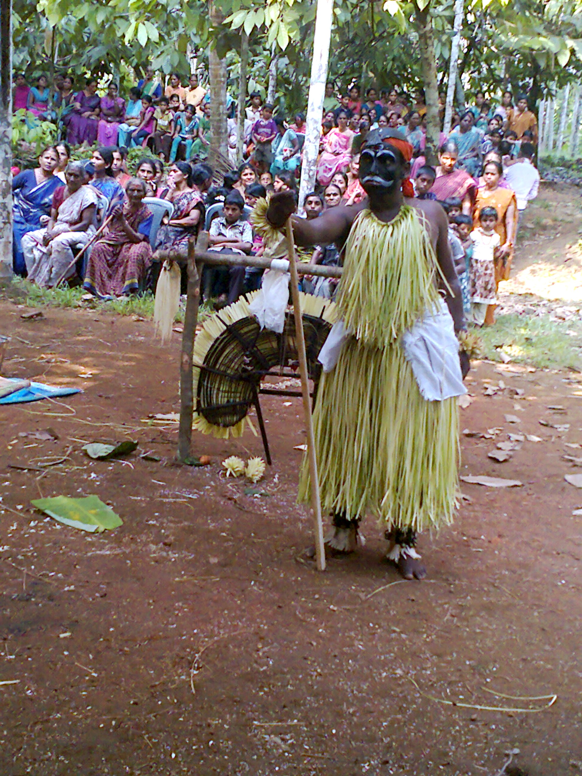 koraga intulu nadu